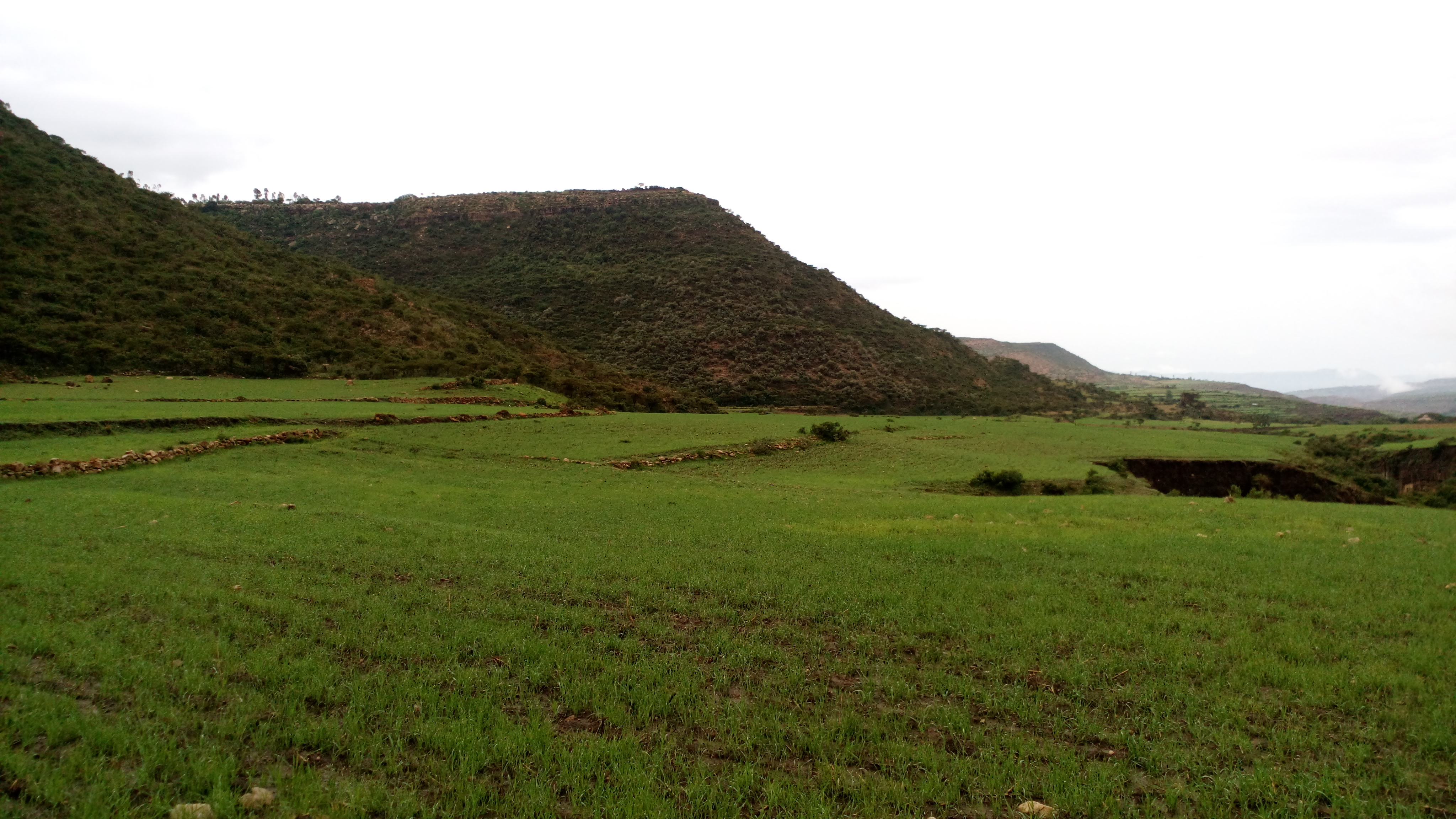 Gemgema